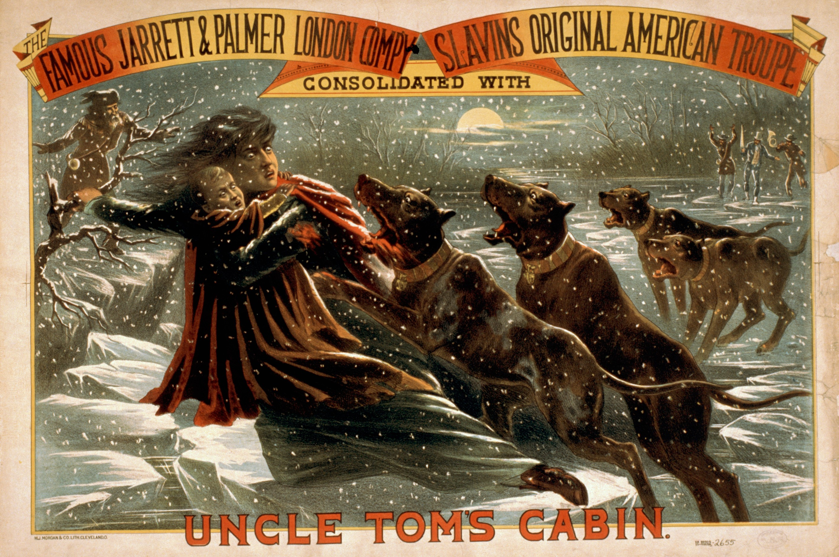 Uncle Tom's Cabin theater poster, showing Eliza crossing the ice. Color lithograph, 71×106 cm.